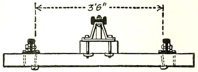 Cross-section view of a central-rail system.